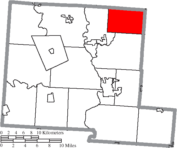 Map of the municipal and township boundaries of Pickaway County, Ohio, United States, as of the 2000 census, with the location of Madison Township highlighted. Township borders are shown only in unincorporated areas in order to differentiate incorporated and unincorporated areas more clearly.